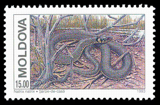 Stamp of Moldova